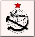 Emblem of Peoples Fedayin